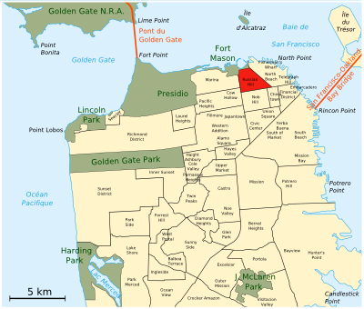 Map of Russian Hill, San Francisco, California, USA